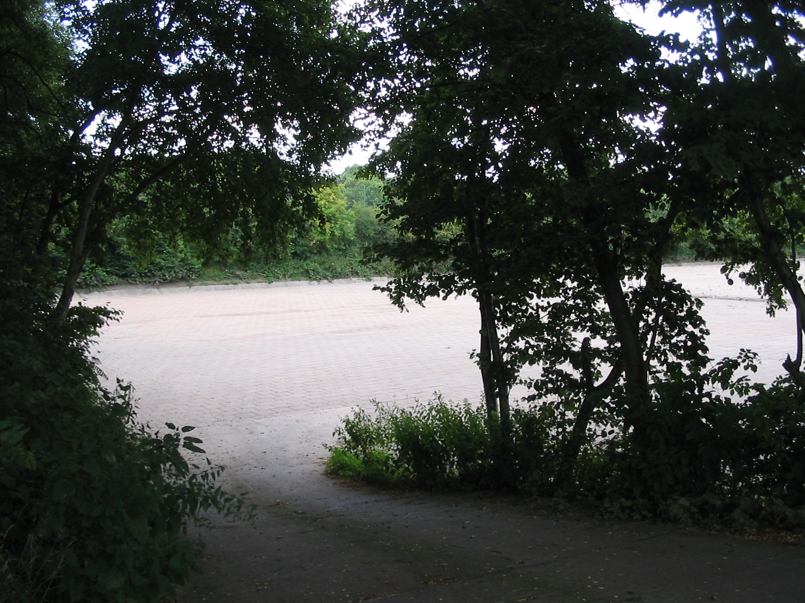 Pferdebach detention basin in Witten